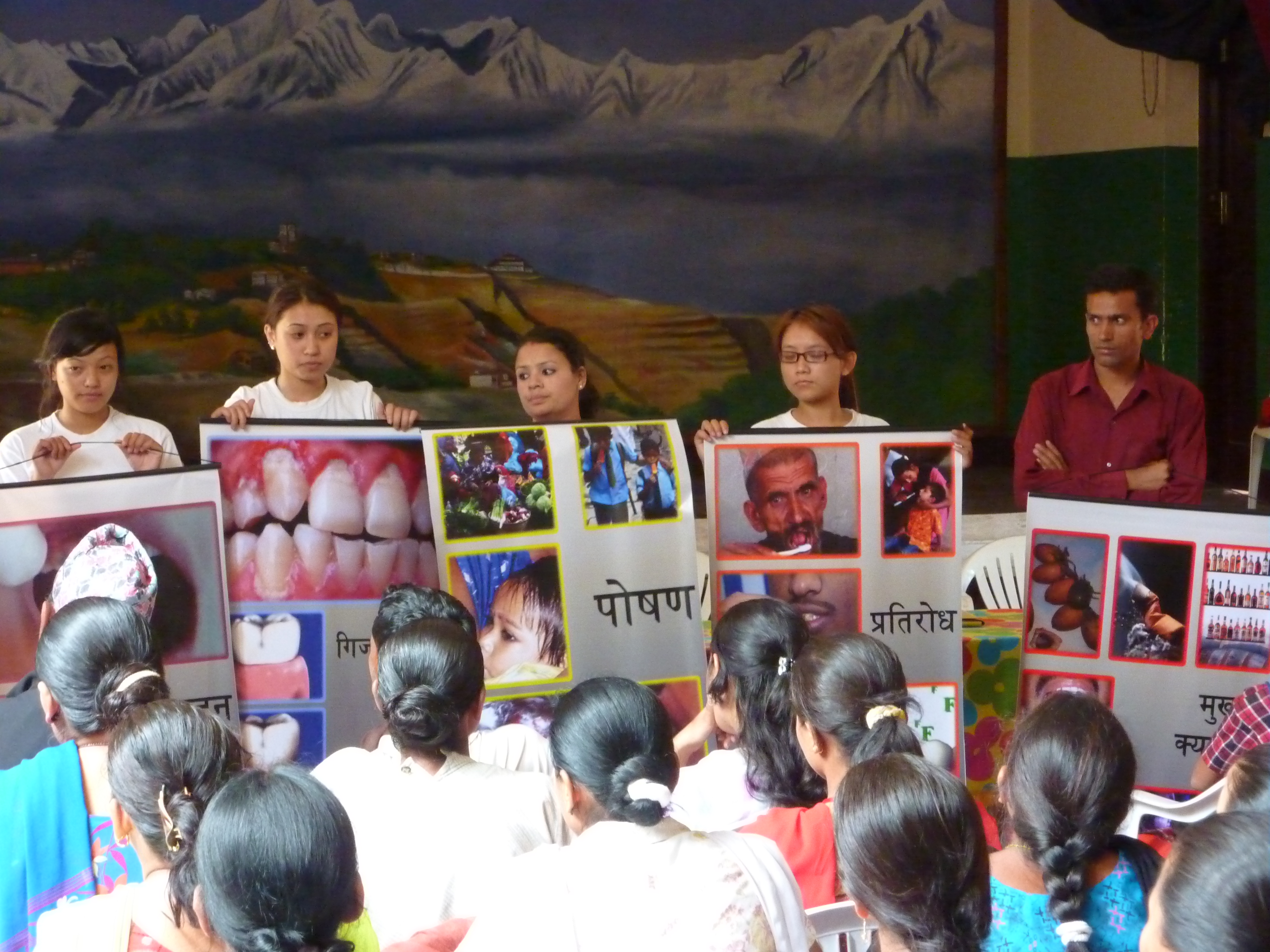 Group session oral health promotion Nepal